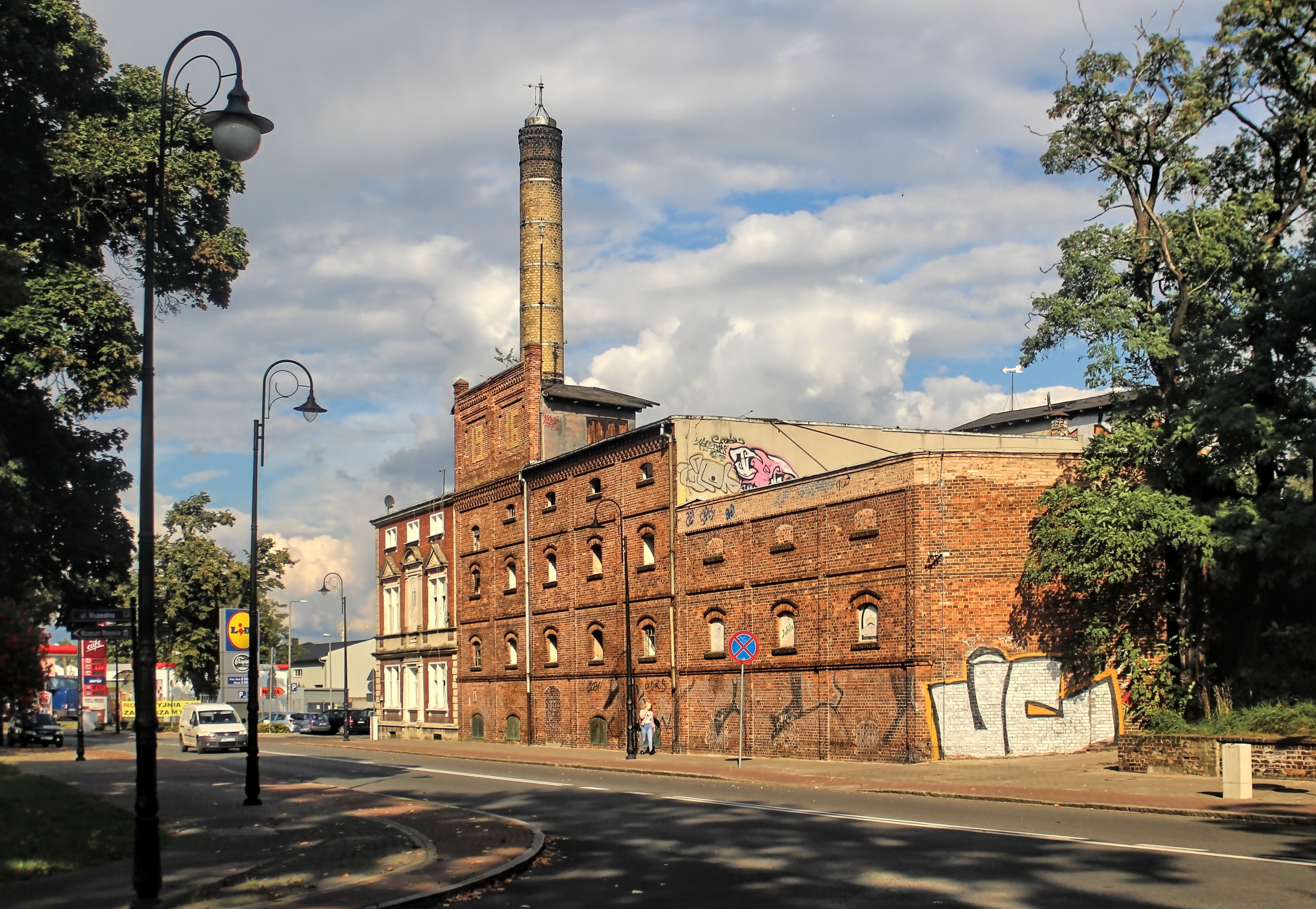 Nowa Sól, Wrocławska Street, Brewery